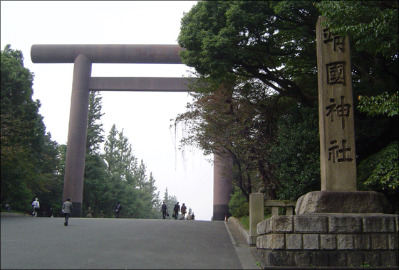 Yasukuni, Tokyo